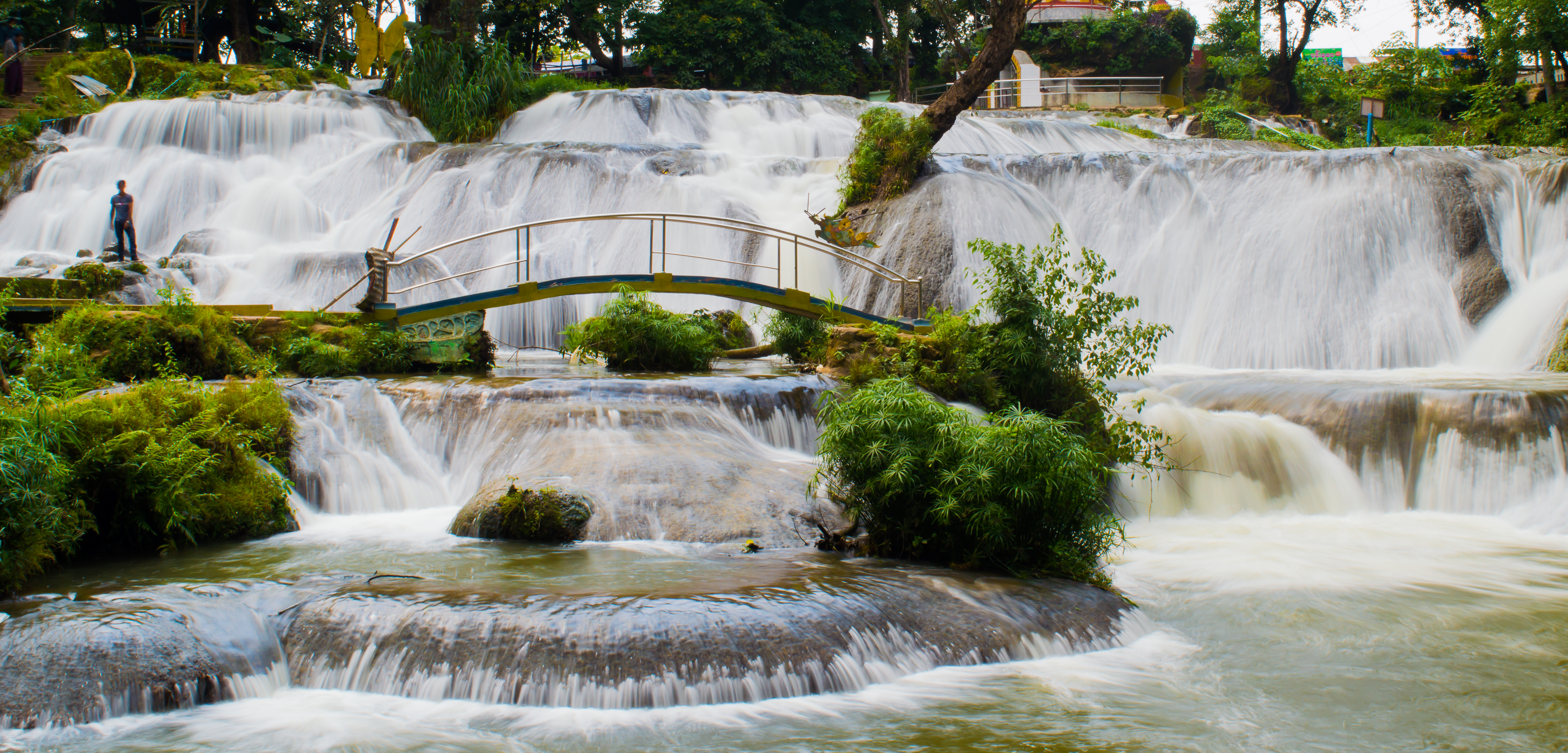 BE Fall at Pyin Oo Lwin